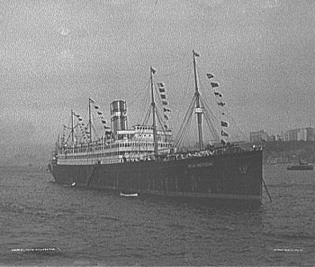 Nieuw Amsterdam I (ship, 1905) postcard